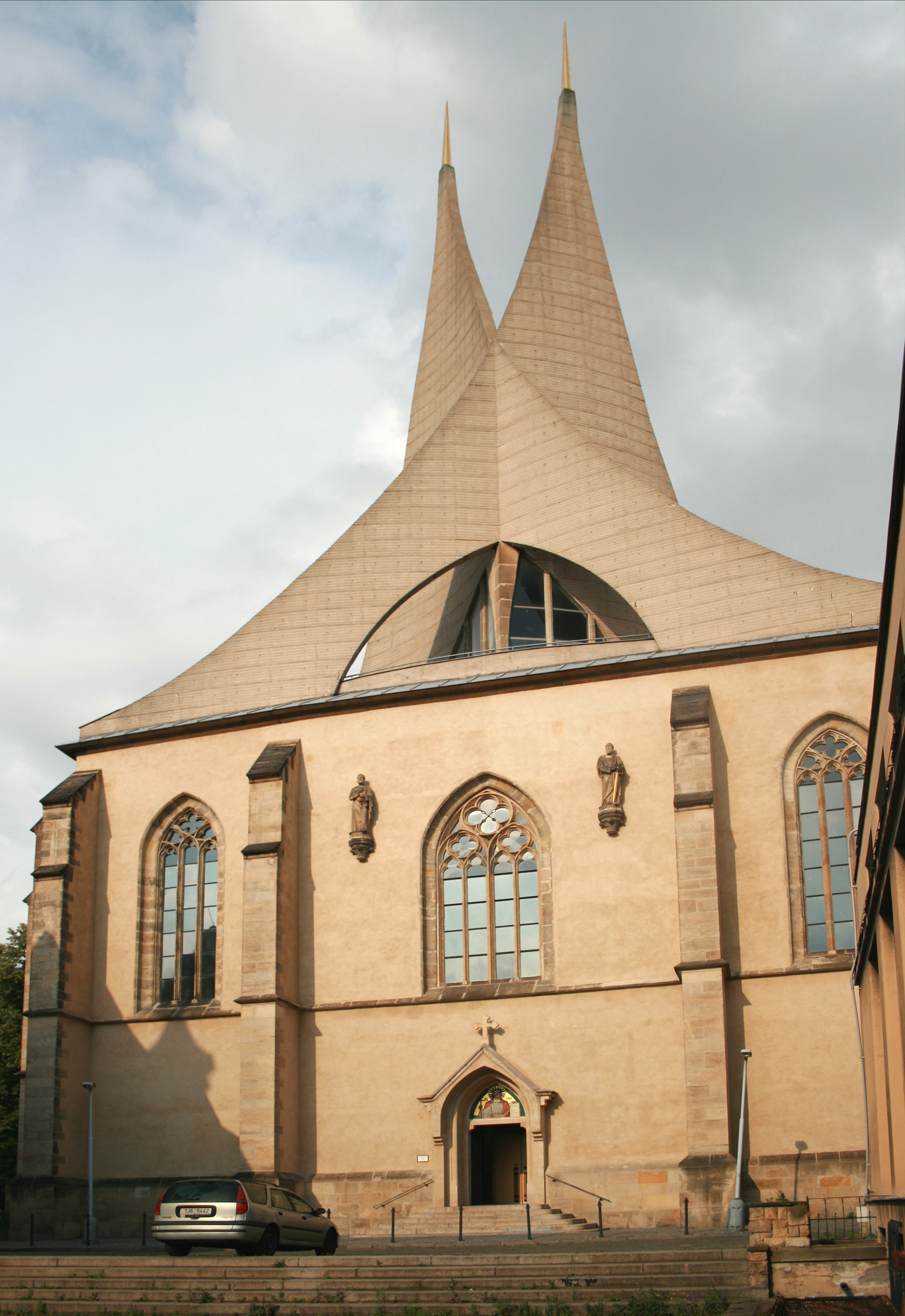 Saint Mary Church in Emauzy (Na Slovanech) in Prague